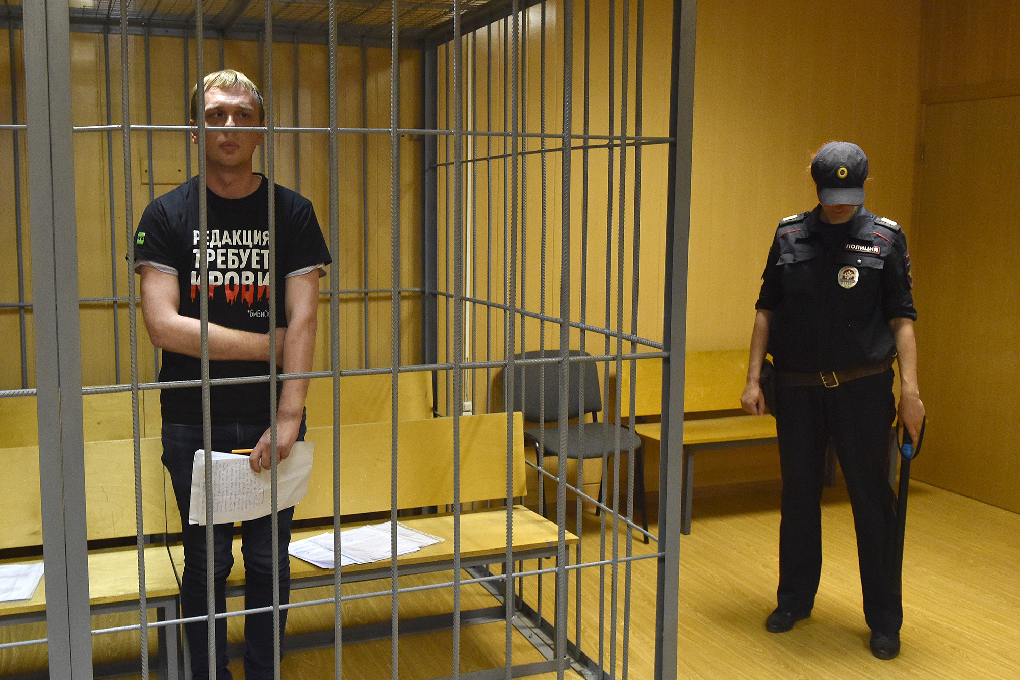 Golunov left the courtroom after the ruling to place him under house arrest until Aug. 7.